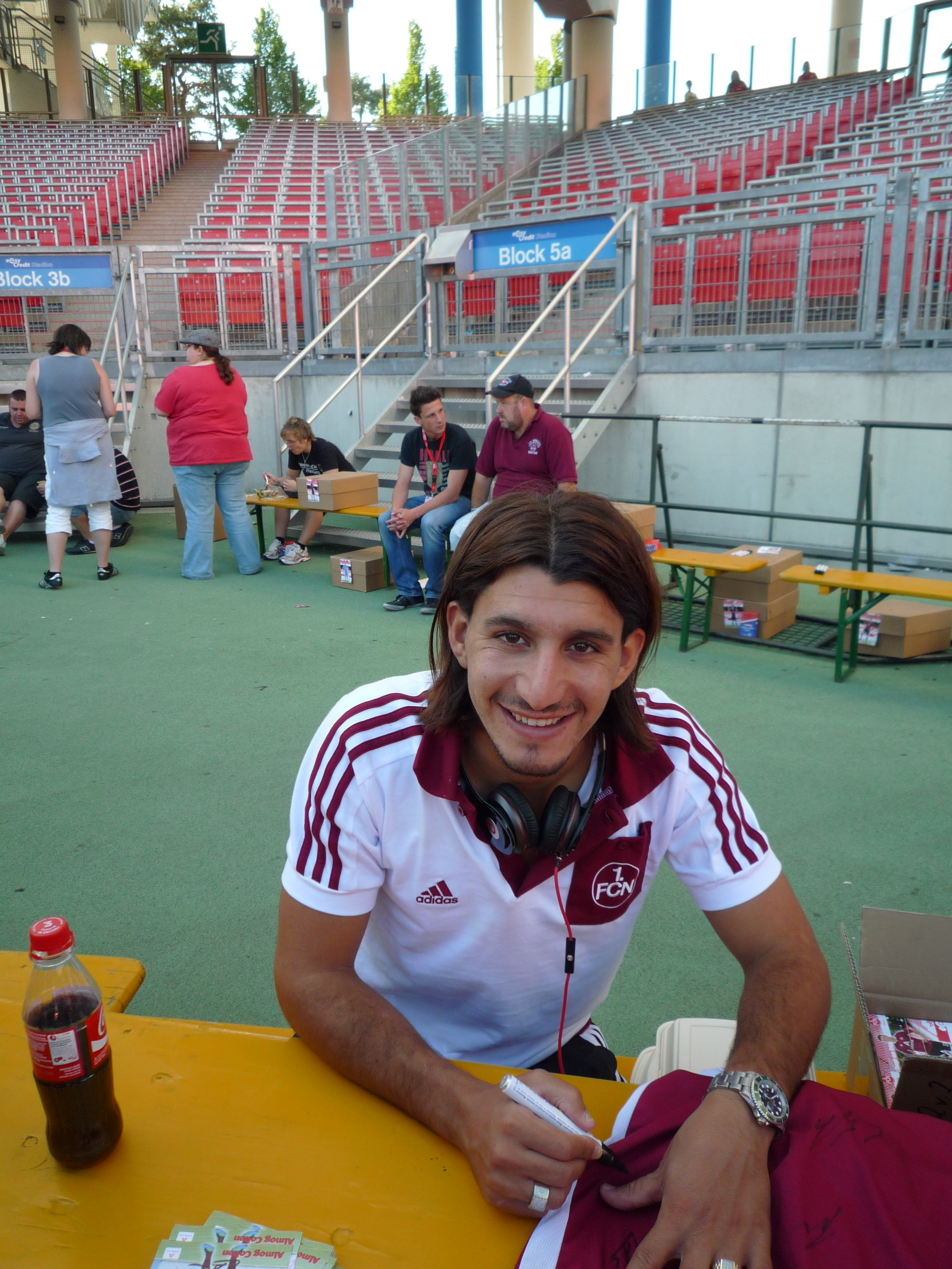 Almog Cohen